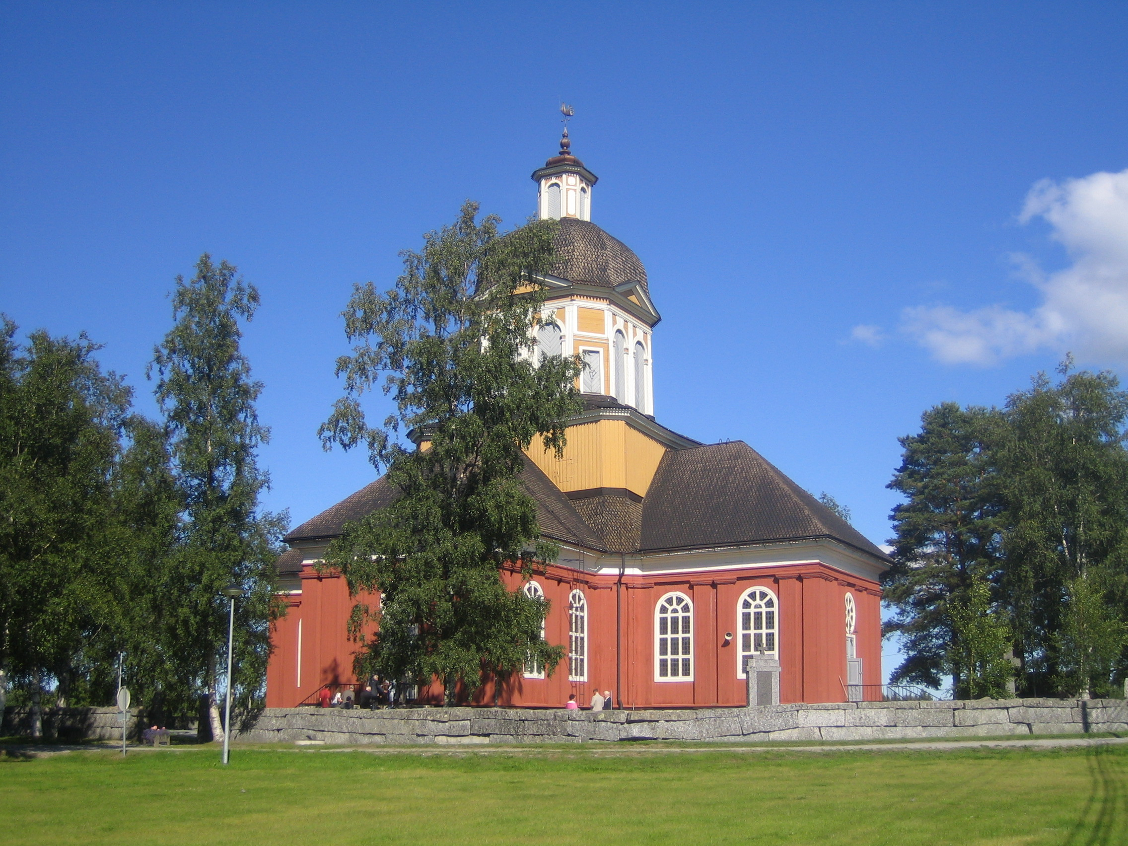 Larsmo Church in Larsmo, Finland. The lutheran church was built in 1785–1787 and designed by Jacob Rijf.